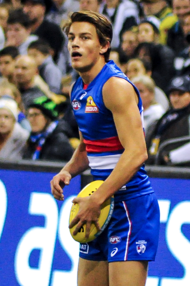 Patrick Lipinski during the AFL round six match between the Western Bulldogs and Carlton on Friday, 27 April 2018 at Etihad Stadium in Melbourne, Victoria.